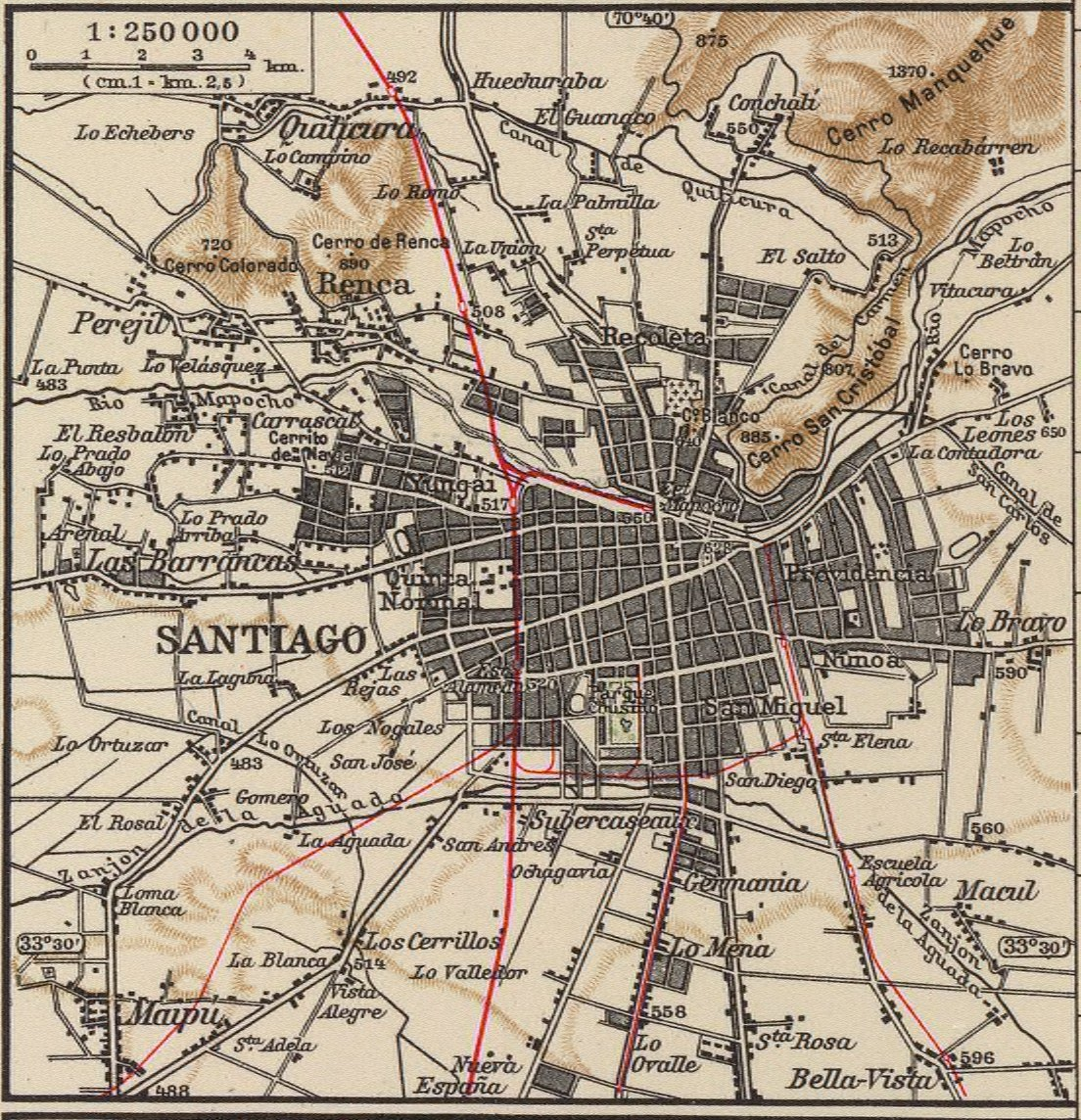 Map of Santiago de Chile, 1929